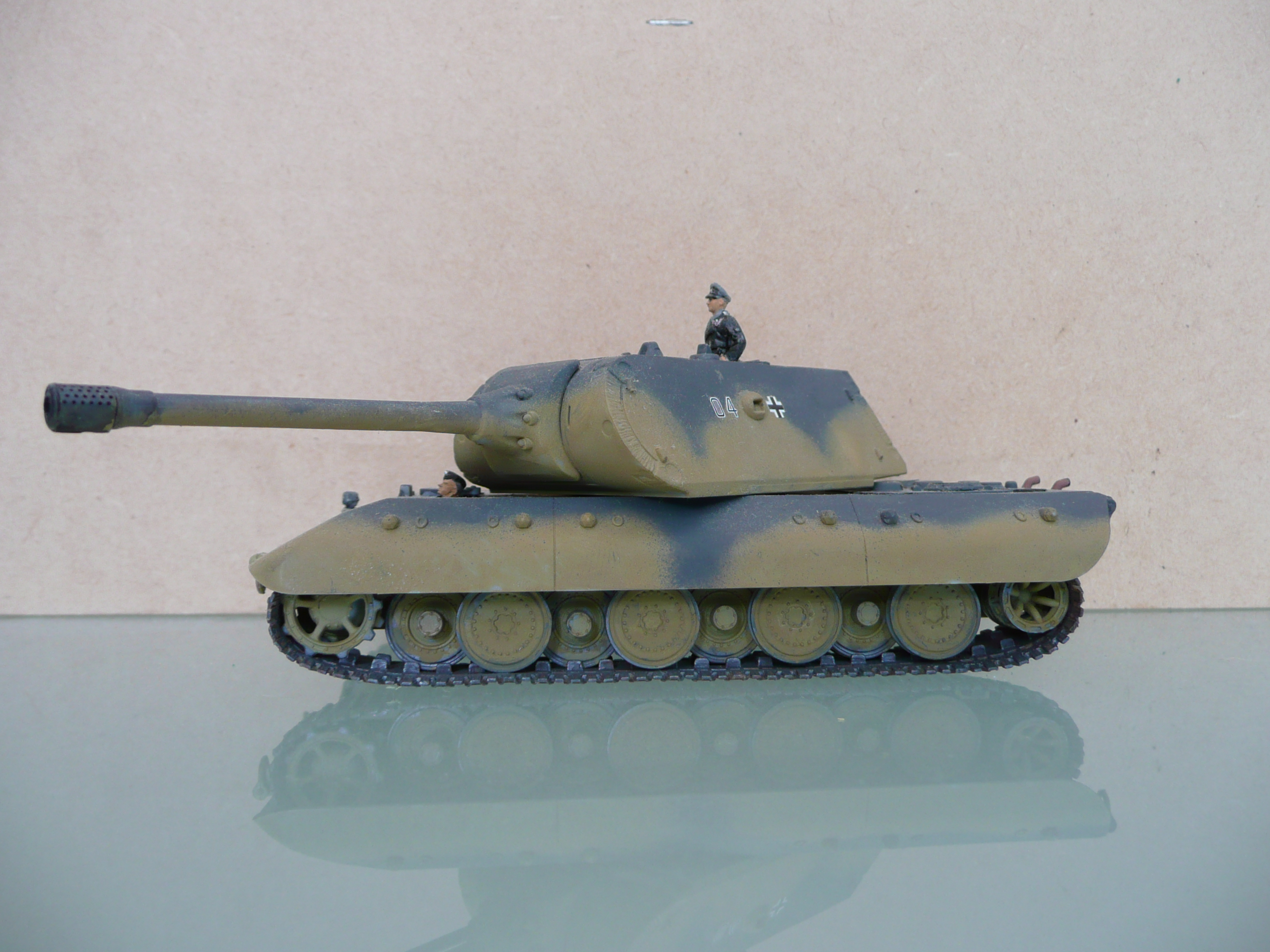 1/72 scale model of the E100 Super heavy tank.